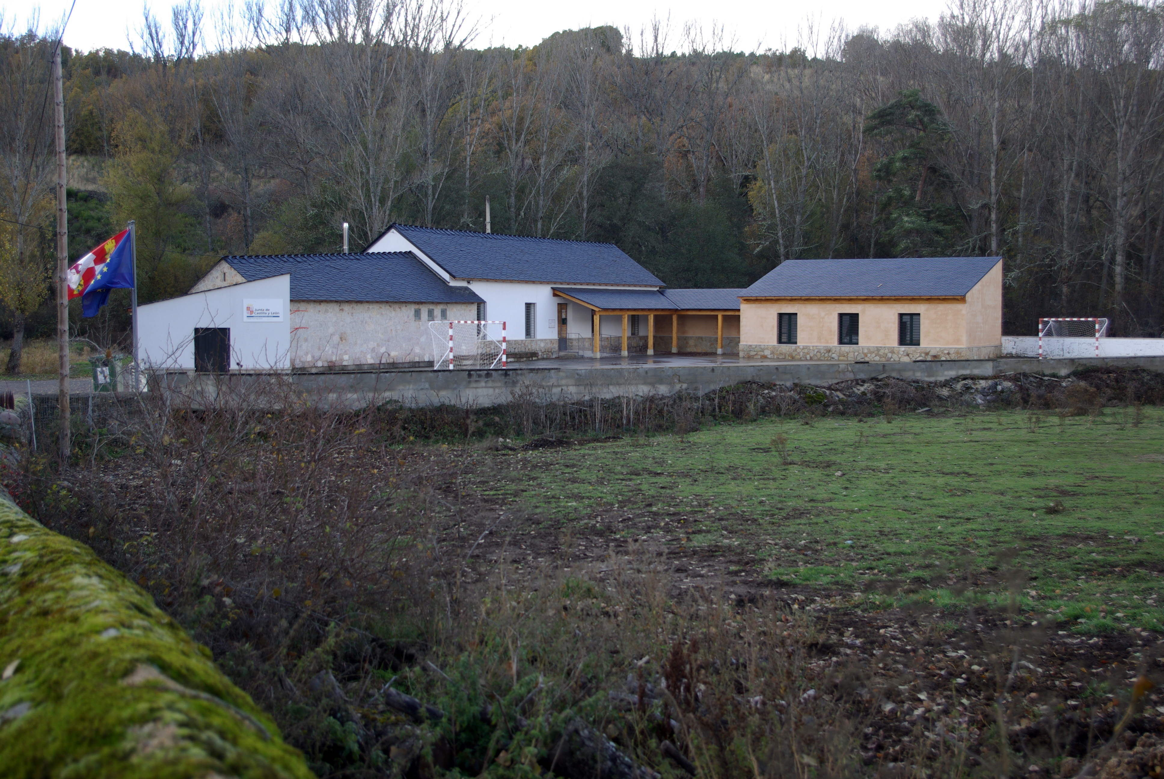 School in Riello (León, Spain).